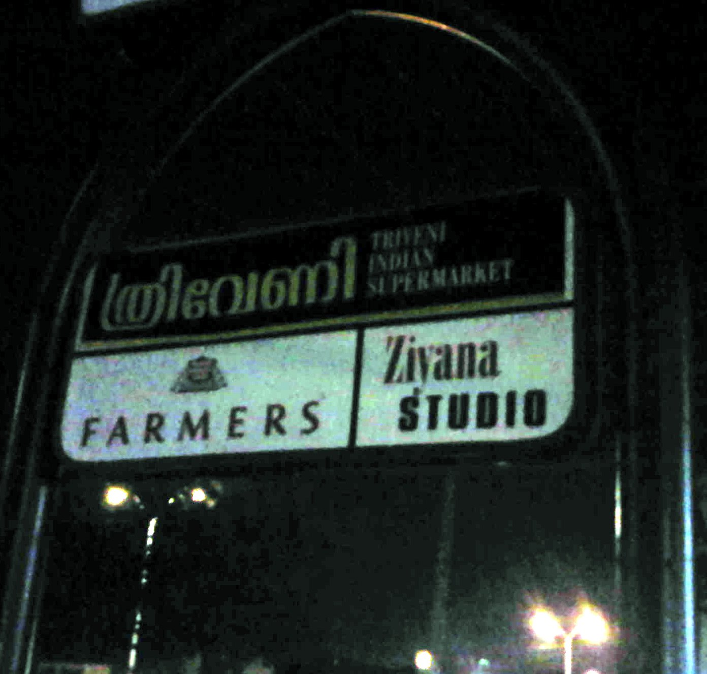 Banner of Triveni Super Market, Irving, TX